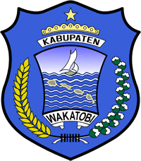 Lambang (Coat of Arms) of Kabupaten (Regency) Wakatobi, Provinsi Sulawesi Tenggara (South East Sulawesi Province), Indonesia